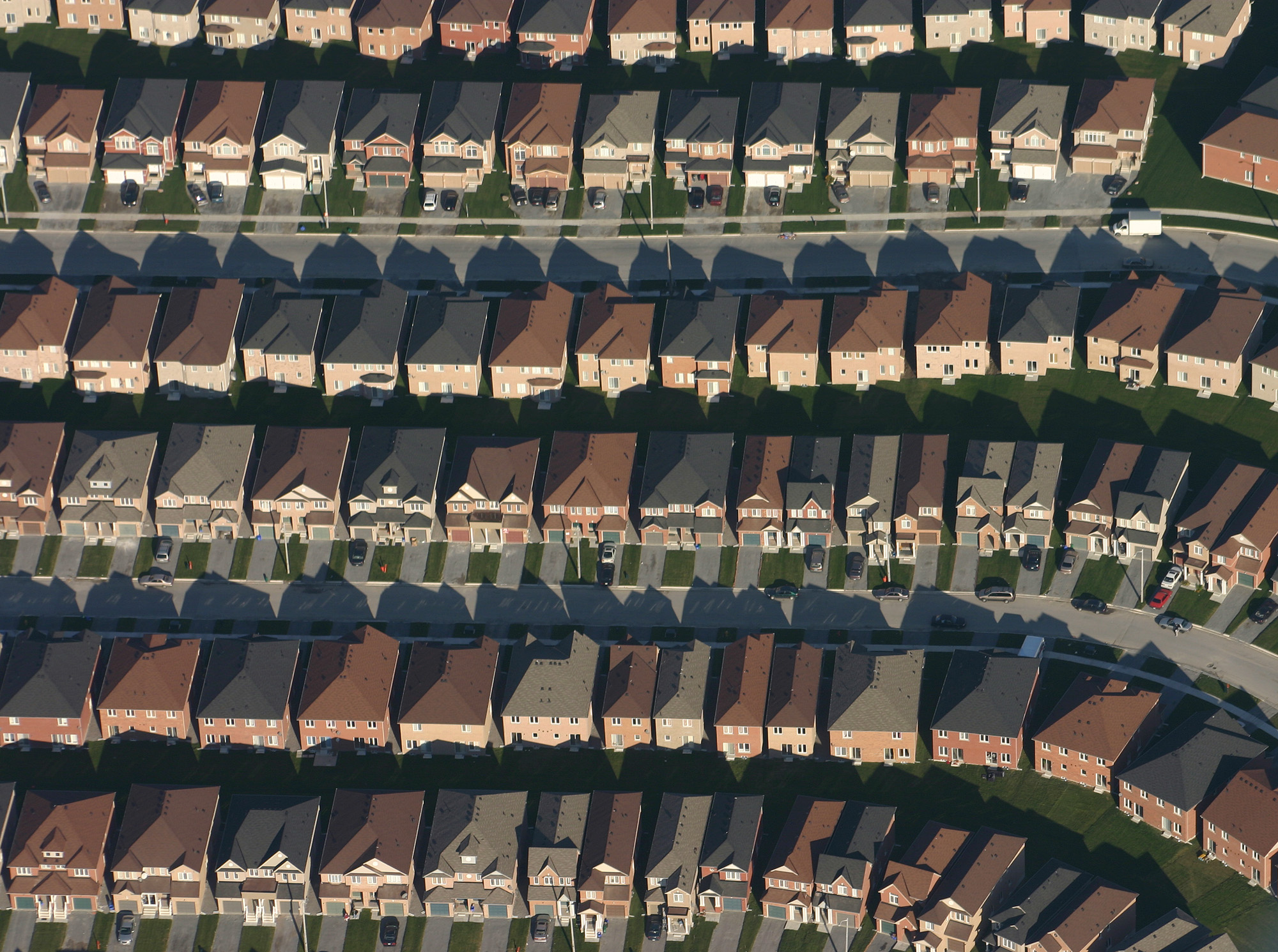 An aerial view of housing developments near Markham, Ontario. Photo by IDuke, November 2005.